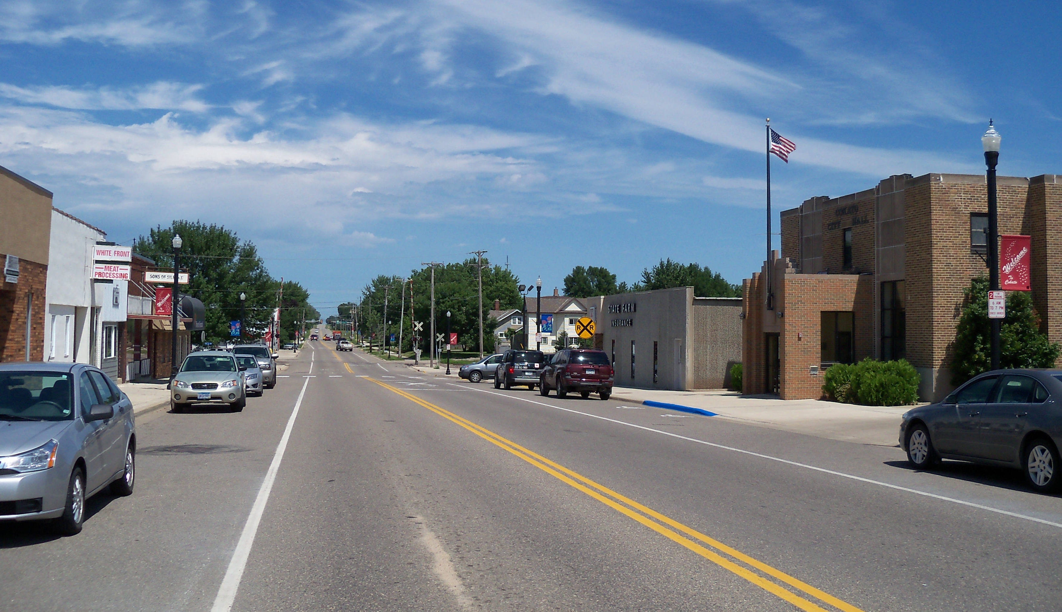 Street in Cokato, Minnesota, USA.